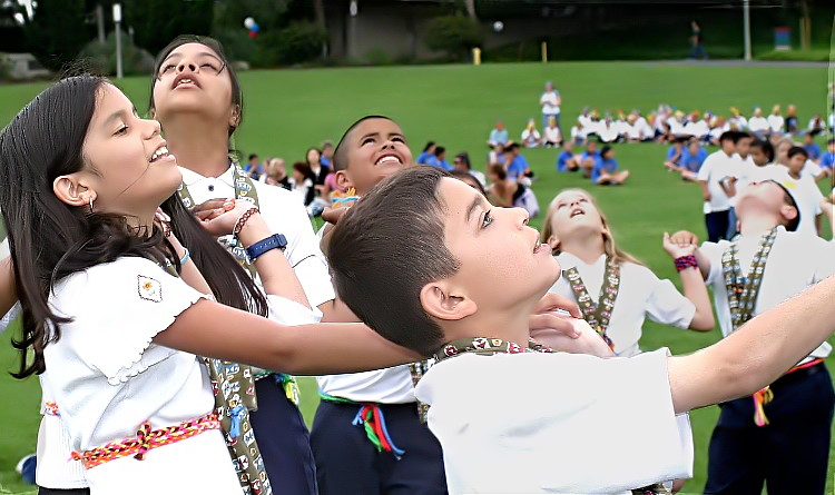 World Day celebrating world art on the campus of UC Irvine, June 2003. ArtsBridge pupils from Orange County elementary schools perform a Conch Dance in Aldrich Park.